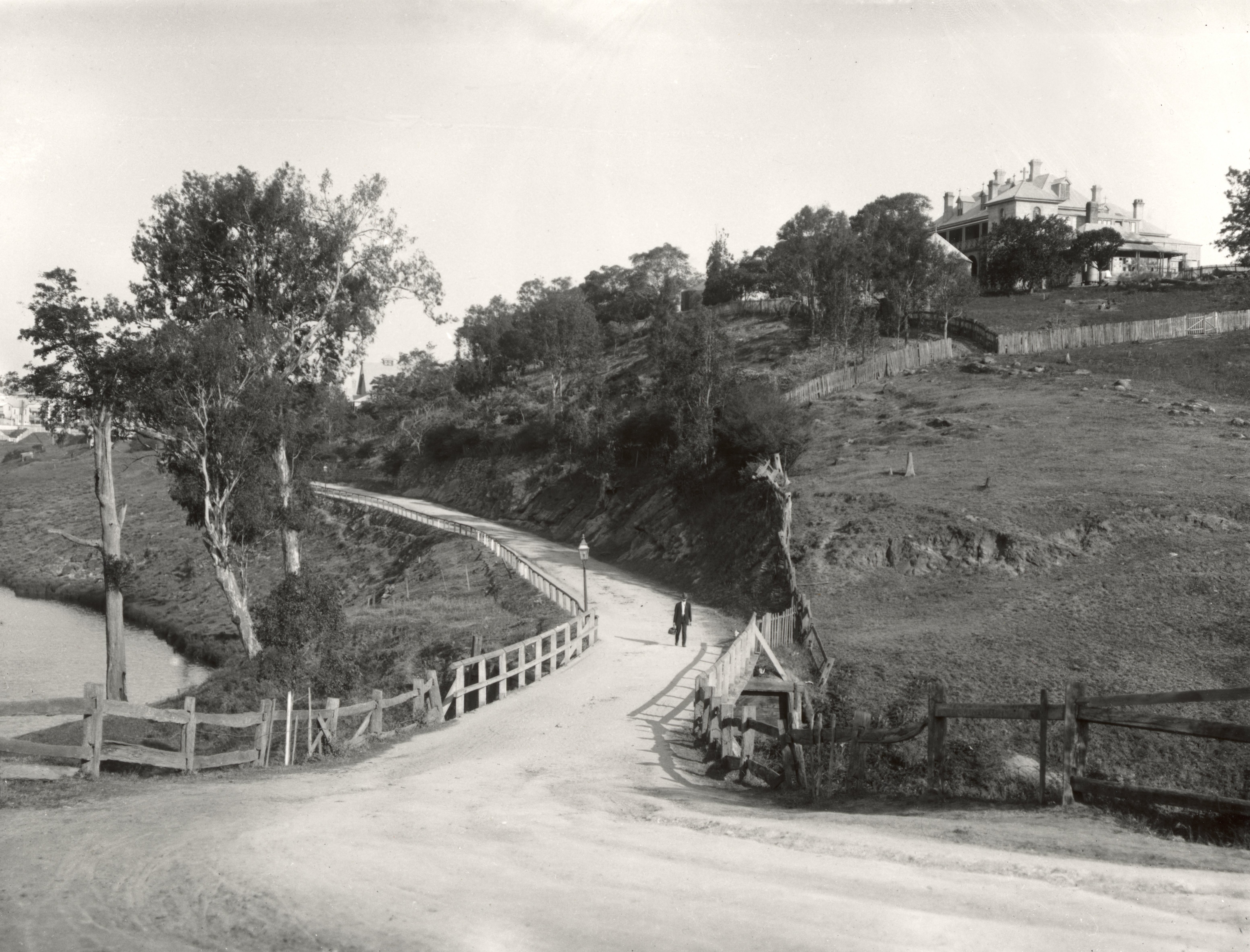 Roseberry Parade Ipswich The Bremer River is on the left and St Mary's Church and Convent are at the top of the hill on the right. Note the untarred roads, the gaslight and the means of transport for the lonely well-dressed man in the foreground - walking. Queensland Museum holds over 1000 of Bert Roberts' plate glass negatives and prints from the era.